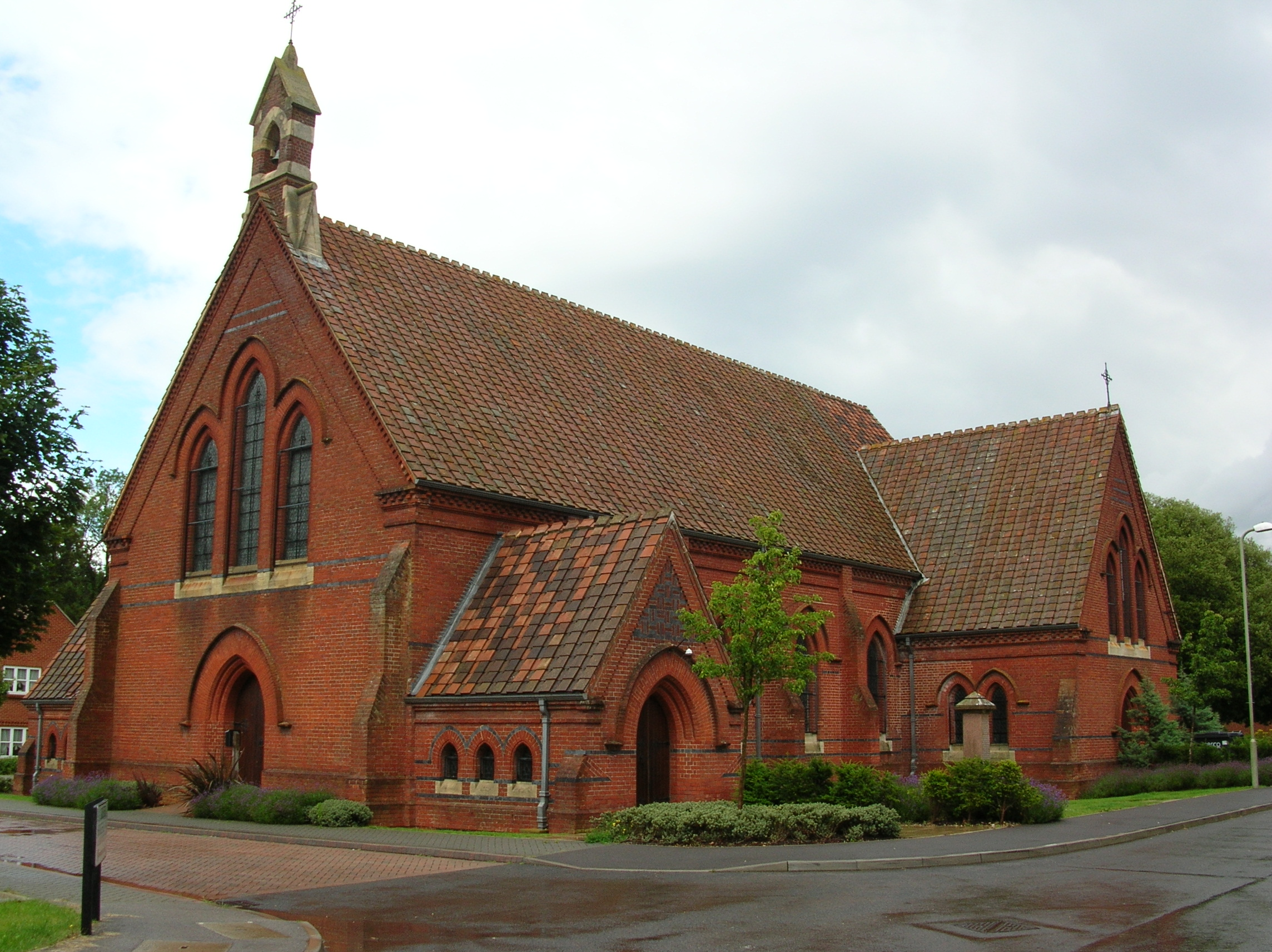 The Chapel at Knowle Village, Hampshire, UK. Formerly the Chapel of the Hampshire County Lunatic Asylum, and recently refurbished by Berkeley Homes for community use. Taken on 4th July 2007.